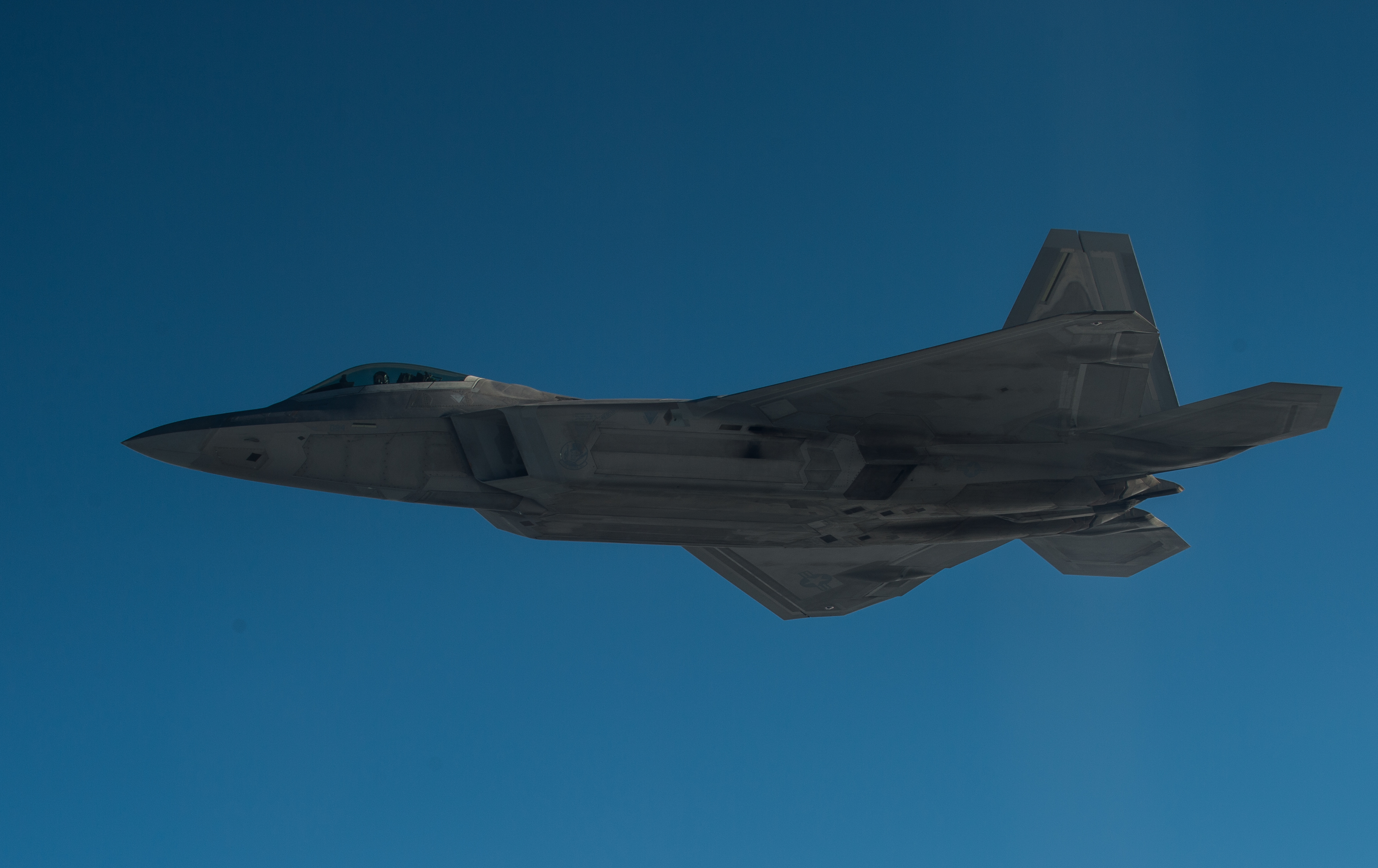 A F-22 Raptor from Tyndall Air Force Base, Fla., flies off the wing of a KC-135 Stratotanker on its way to Iraq, Jan. 30 2015. The F-22s are supporting the U.S. lead coalition against Da'esh. (U.S. Air Force Photo by Staff Sgt. Perry Aston/Released)